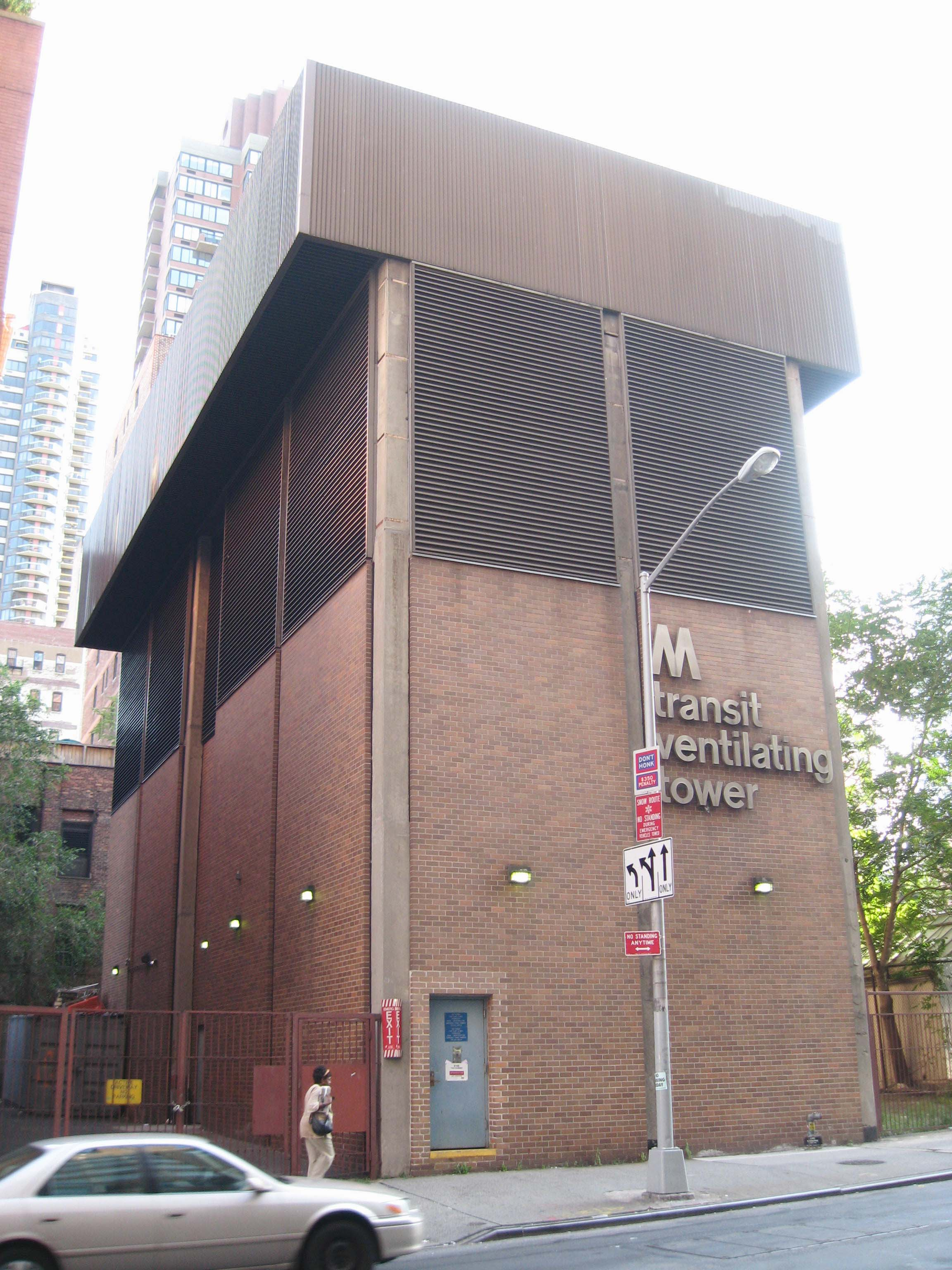 Looking south across 63d Street, east of Second Avenue, at IND 63rd Street Line ventilation tower on a cloudy afternoon. See also Image:63 tunnel Rooselvelt Island jeh.JPG